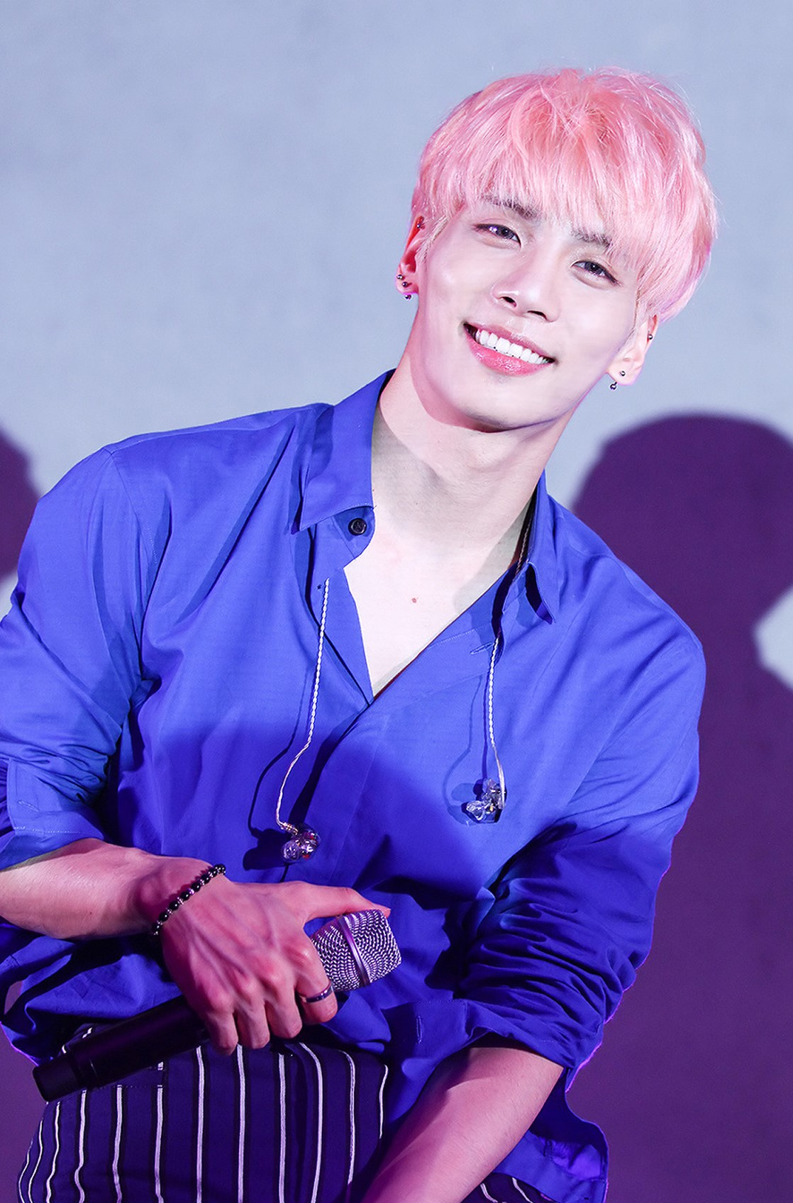 Jonghyun at Dazed x Boon The Shop Event on May 25, 2016.